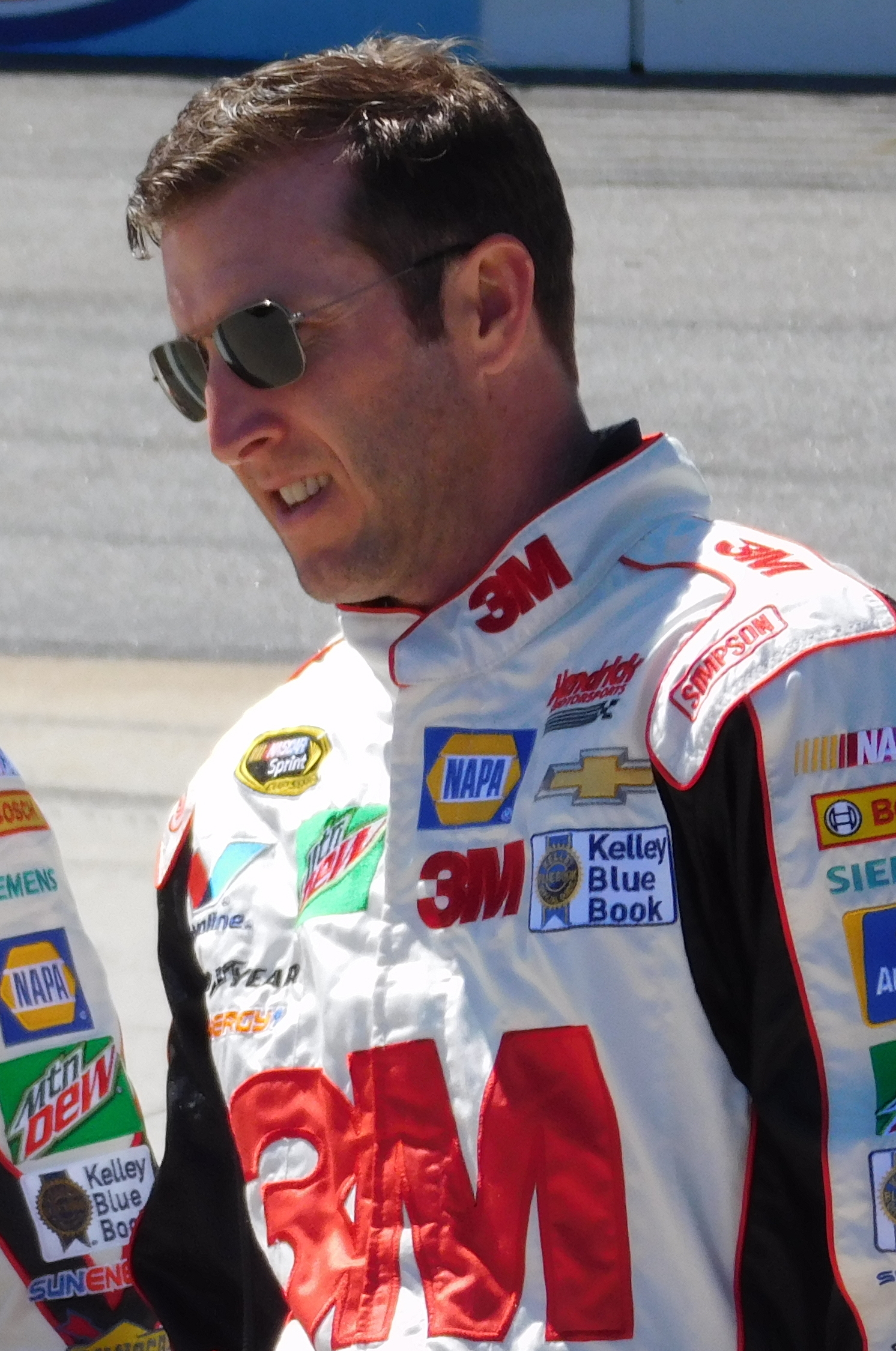 Driver Chase Elliott and crew chief Alan Gustafson at Martinsville Speedway in 2016